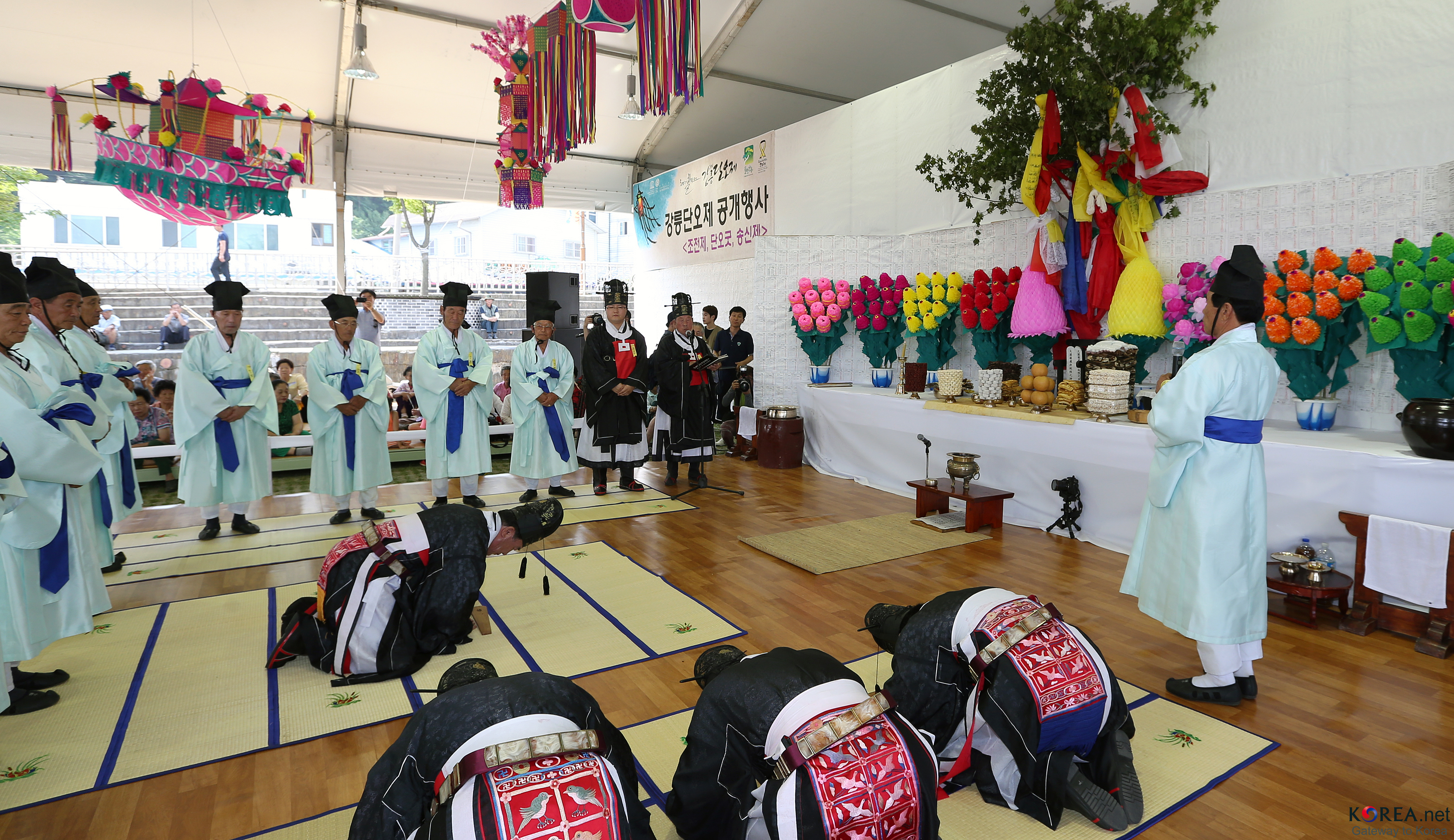 Exploring The UNESCO World Heritage in Korea 1st Program – ‘The Healing Festival Lasting 1,000 years’ Gangneung Danoje Festival & Jangneung(One of Royal Tombs of Joseon Dynasty) Gangneung Danoje Festival June 1, 2014 Gangneung-si, Gangwon-do Ministry of Culture, Sports and Tourism Korean Culture and Information Service ( Official Photographer: Jeon Han This official Republic of Korea photograph is licensed as free content, so while restrictions such as personality or privacy rights may apply, in general, manipulations are allowed. If you want a photograph without a watermark, you may ask via Flickr e-mail. 유네스코 세계문화유산 등재 유•무형 한국문화유산 심층탐방 첫 번째 프로그램 - ‘천년을 이어온 힐링 축제’ 강릉단오제와 장릉 강릉단오제 조전제 2014-06-01 강원도 강릉시 문화체육관광부 해외문화홍보원 코리아넷 전한